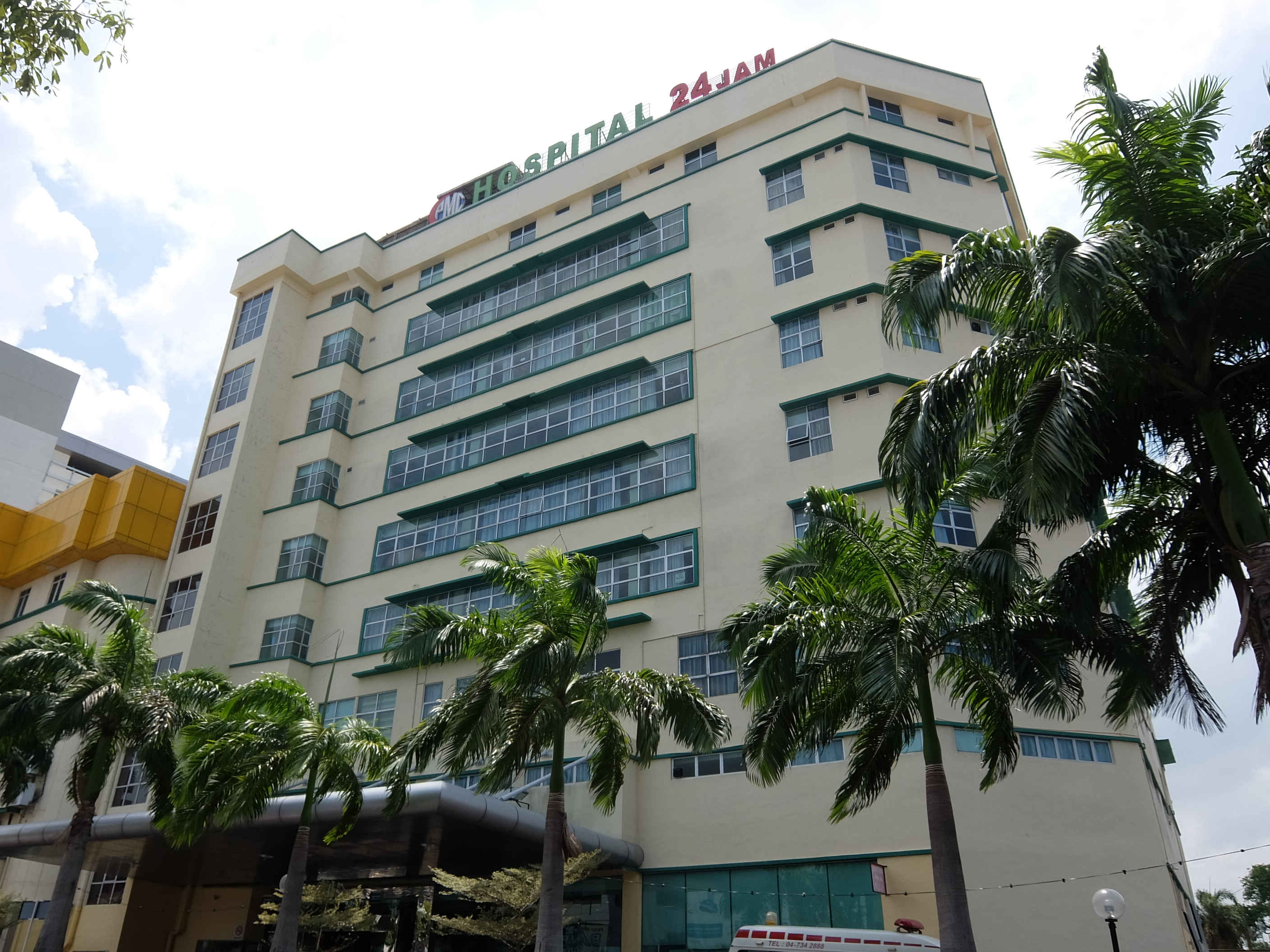 PMC Hospital, Alor Setar, Kota Setar, Kedah, Malaysia